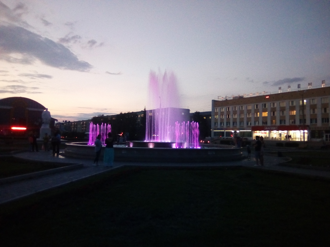 Uchaly Lenin square